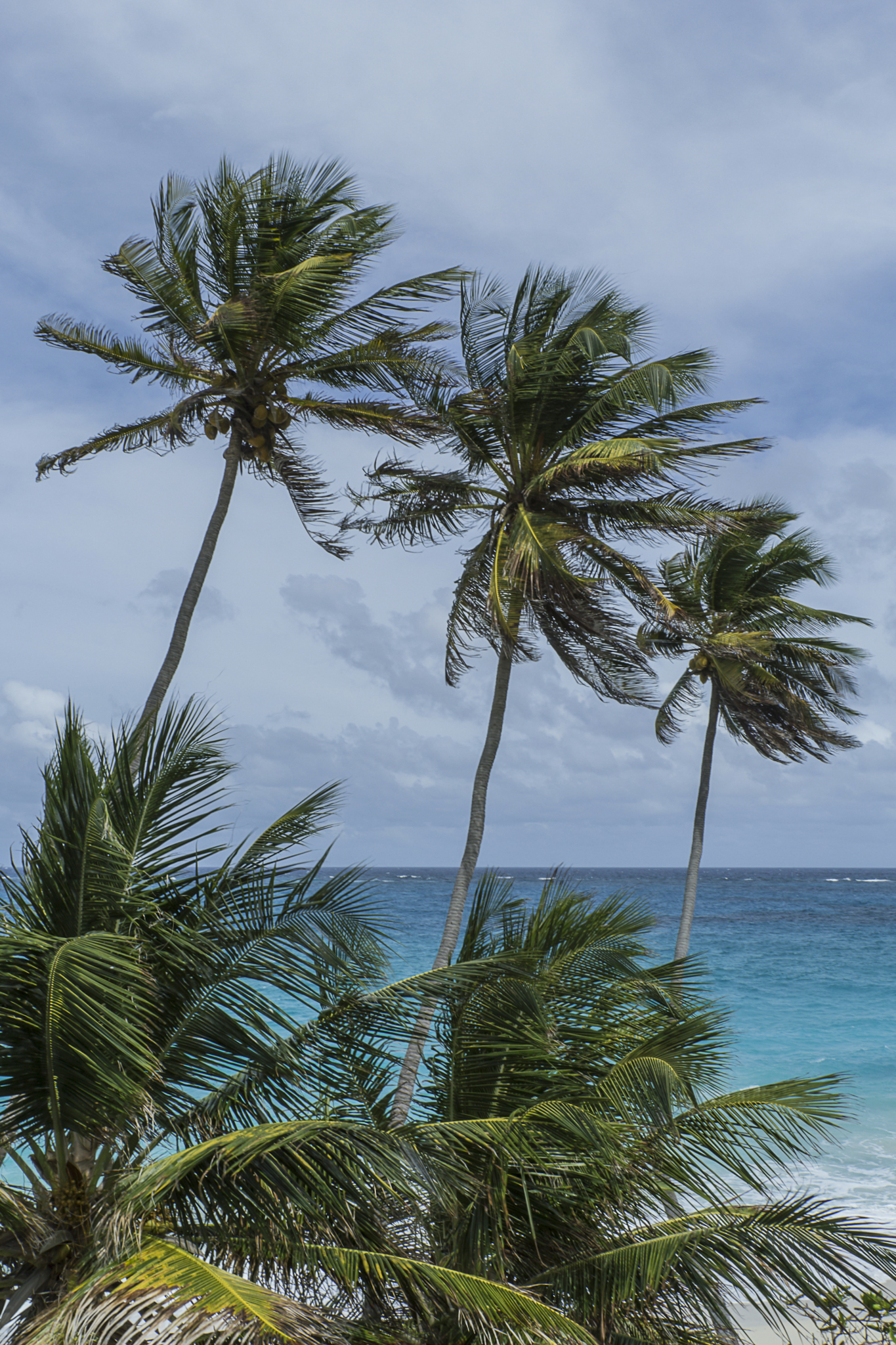 Beautiful bay on East coast of Barbados